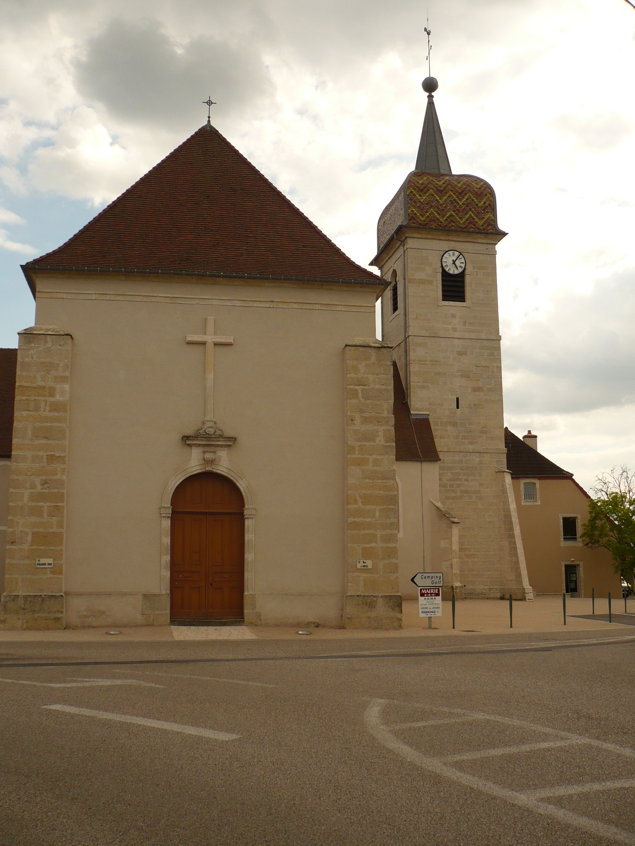 Photograph of the church of Parcey in Jura (France).